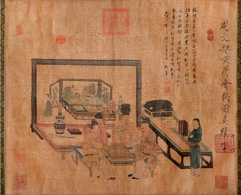 Chinese Go-players (Chong Ping Hui Qi Tu)